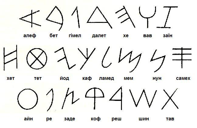 Phoenician Alphabet (ukrainian)